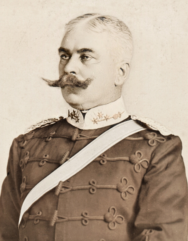 Colonel Adolf Schiel, Commandant Johannesburg Fort, Provenance photograph collection